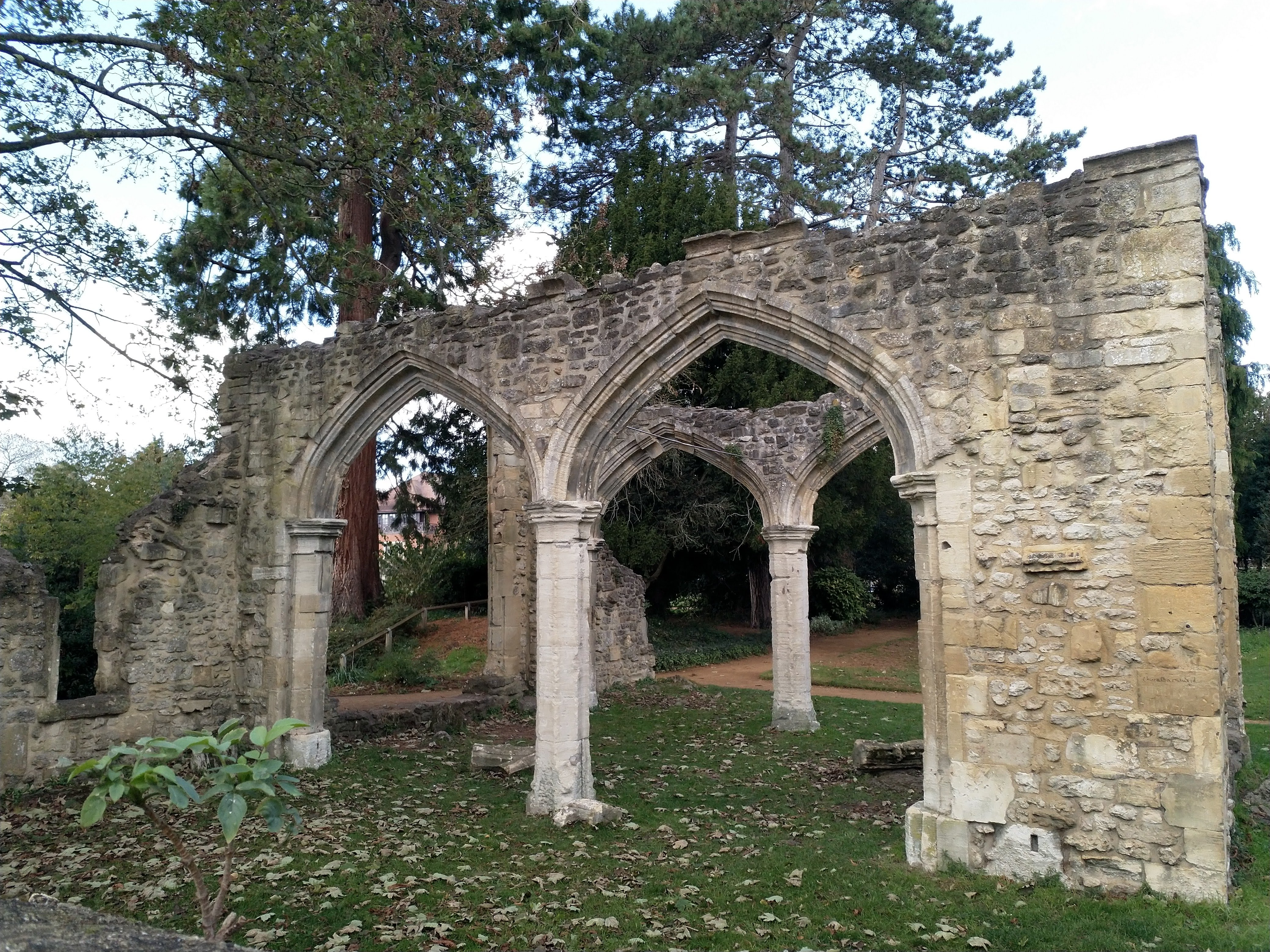 Part of the remaining ruins of Abingdon Abbey, Oxfordshire, UK